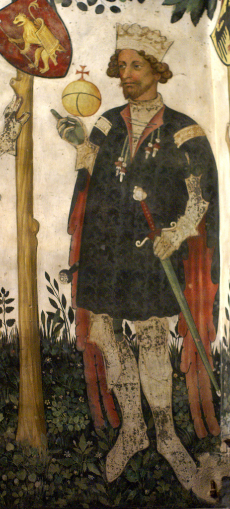 Thomas III of Saluzzo as Alexander the Great